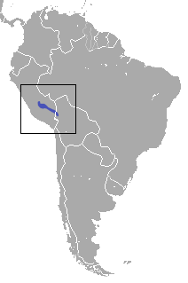 Incan Shrew Opossum (Lestoros inca) range